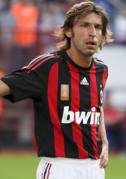 Andrea Pirlo